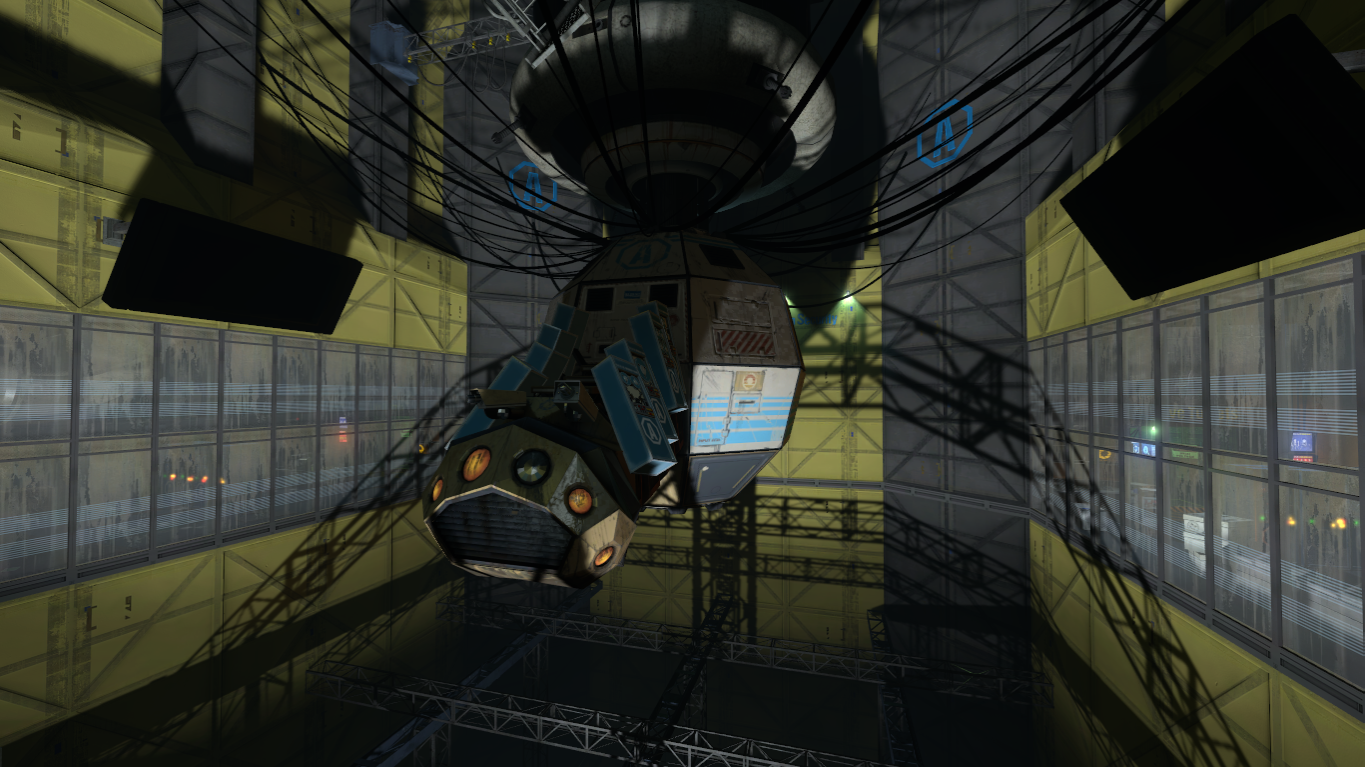 AEGIS (Aperture Employee Guardian and Intrusion System) in the AEGIS' Core Chamber. Screenshot of the game Portal Stories: Mel. Authorized upload after making a request to Prism Studios Ltd.